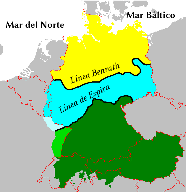 German dialectal map, in Spanish